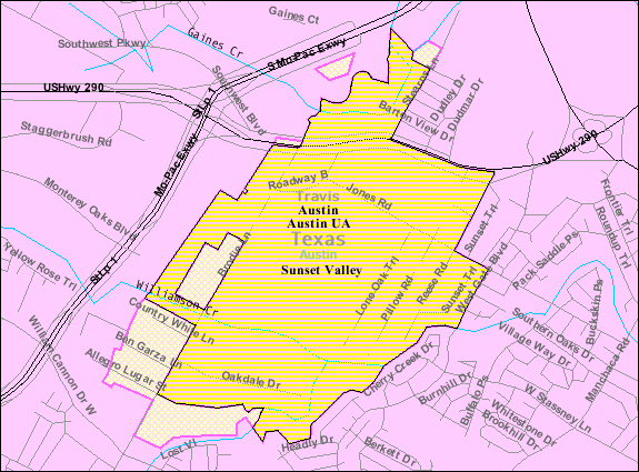 Map of Sunset Valley, Texas